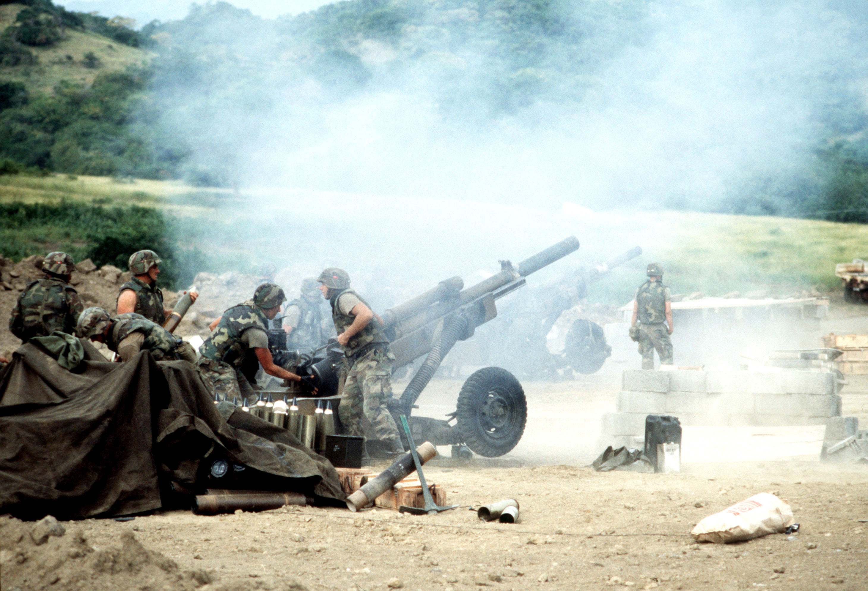 82nd Airborne artillery personnel load and fire M102 105 mm howitzers during Operation URGENT FURY.